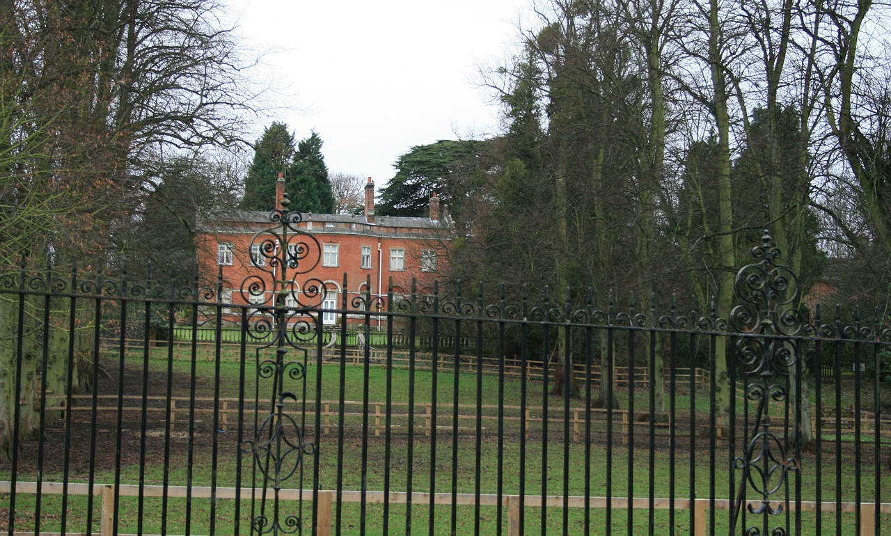 Durdans (2)